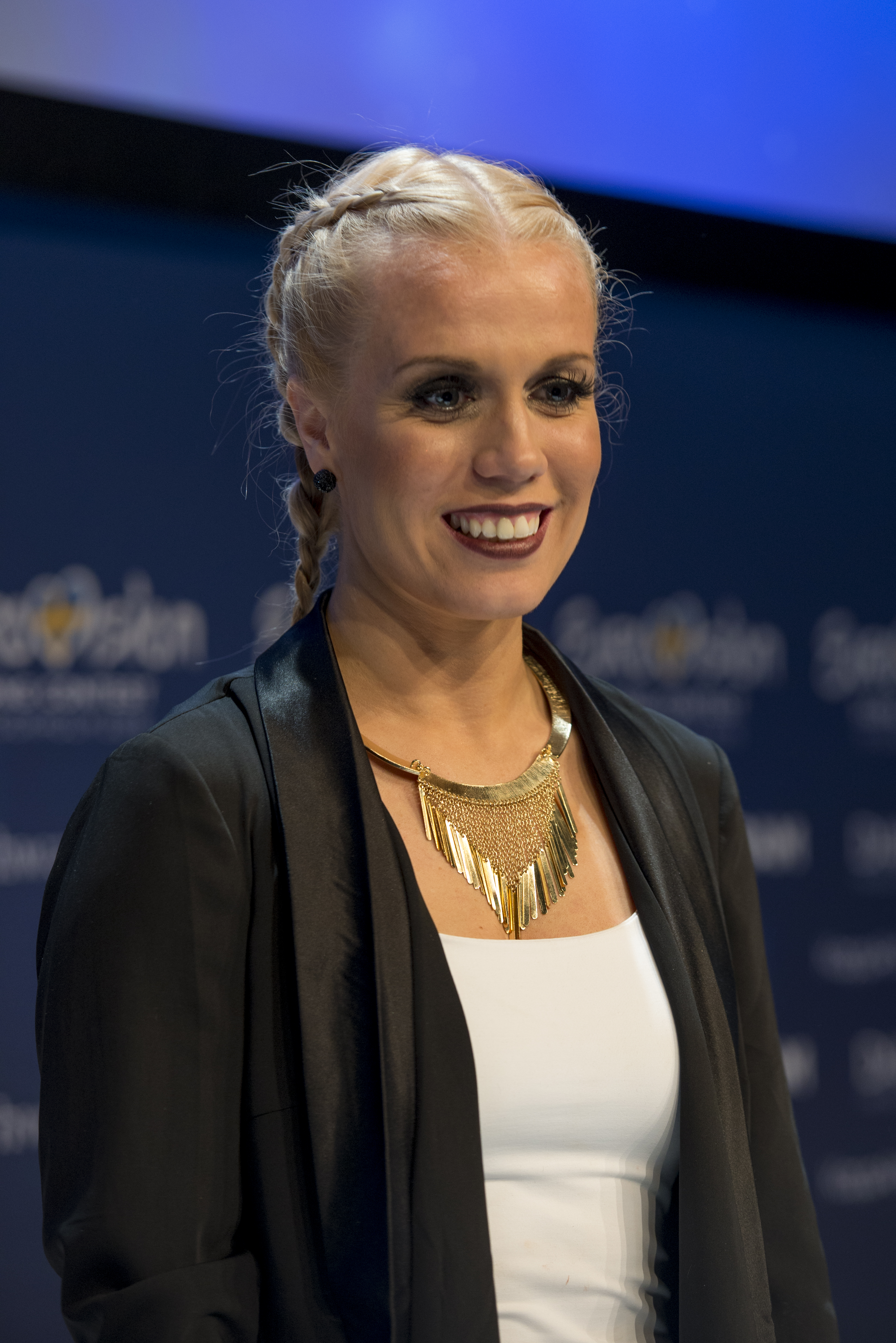 Greta Salóme at a Meet & Greet during the Eurovision Song Contest 2016 in Stockholm. (Help translate this text)